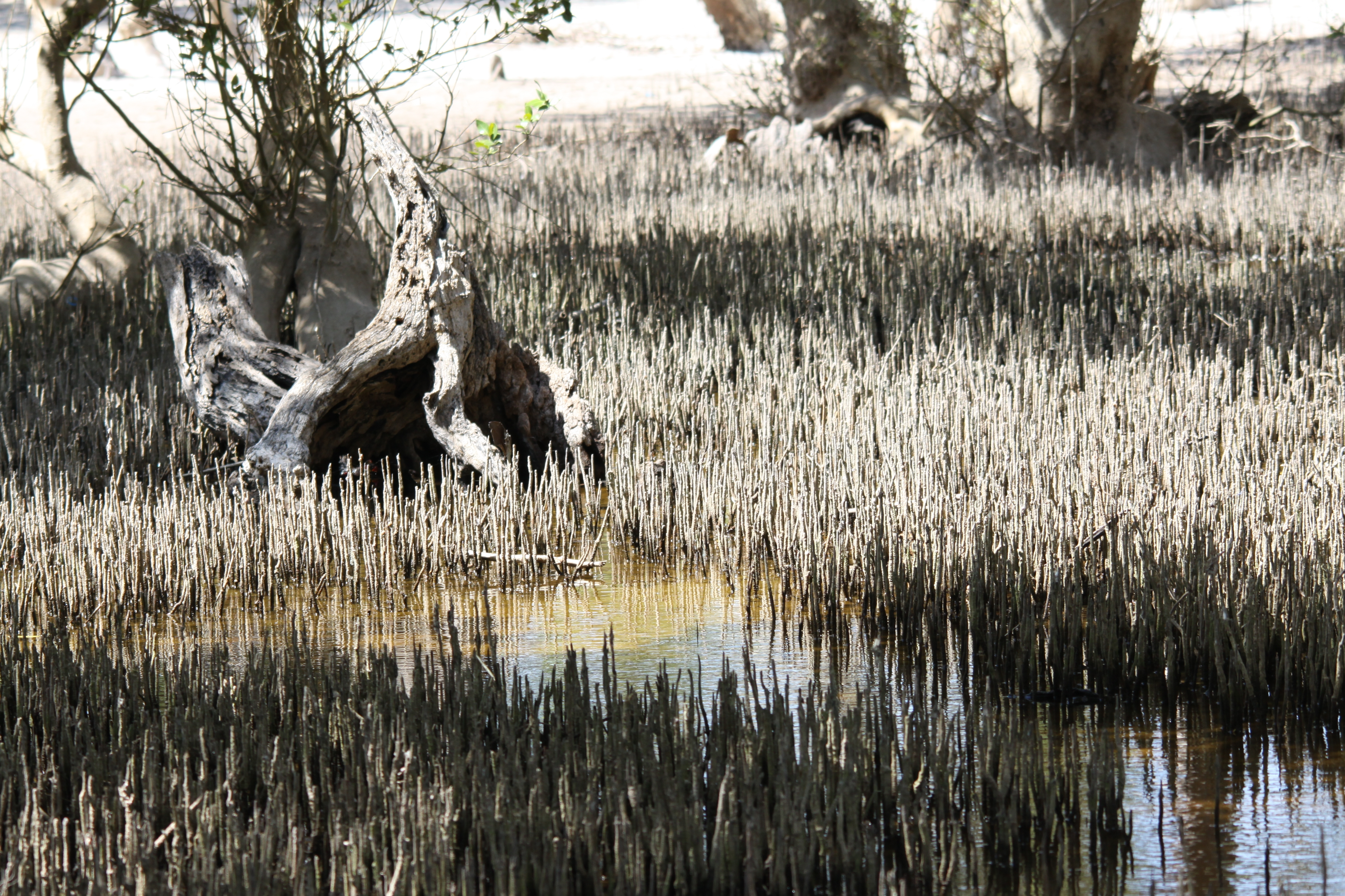 Pneumatophores of a Avicennia in Kenya